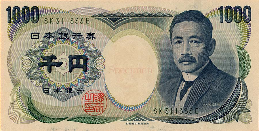 Series D 1000 Yen Bank of Japan note. Portrait: Natsume Sōseki. First issued in 1984. Issue suspended in 2007. Legal tender. 150mm x 76mm.